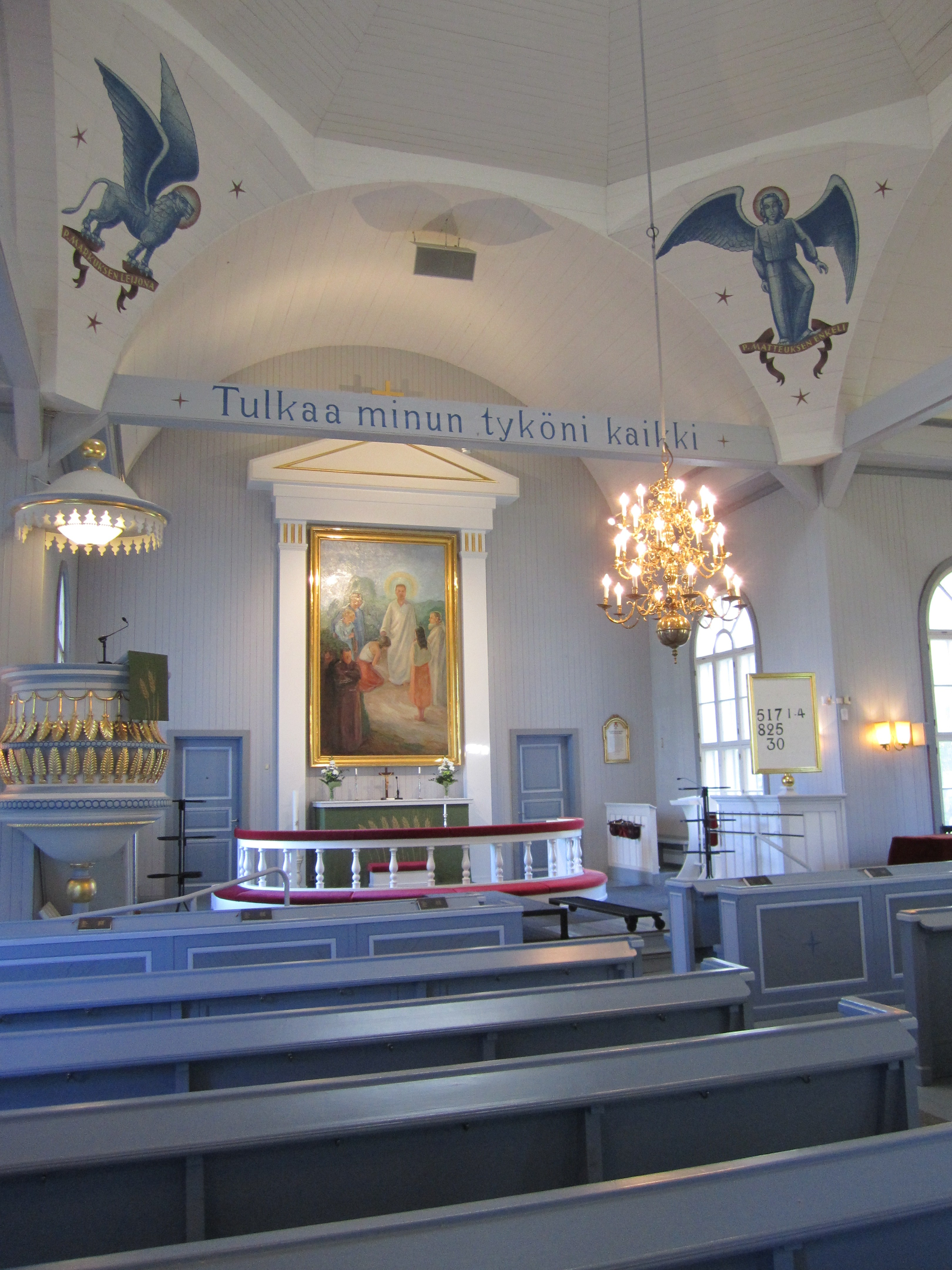 Pihtipudas church, Pihtipudas, Finland.